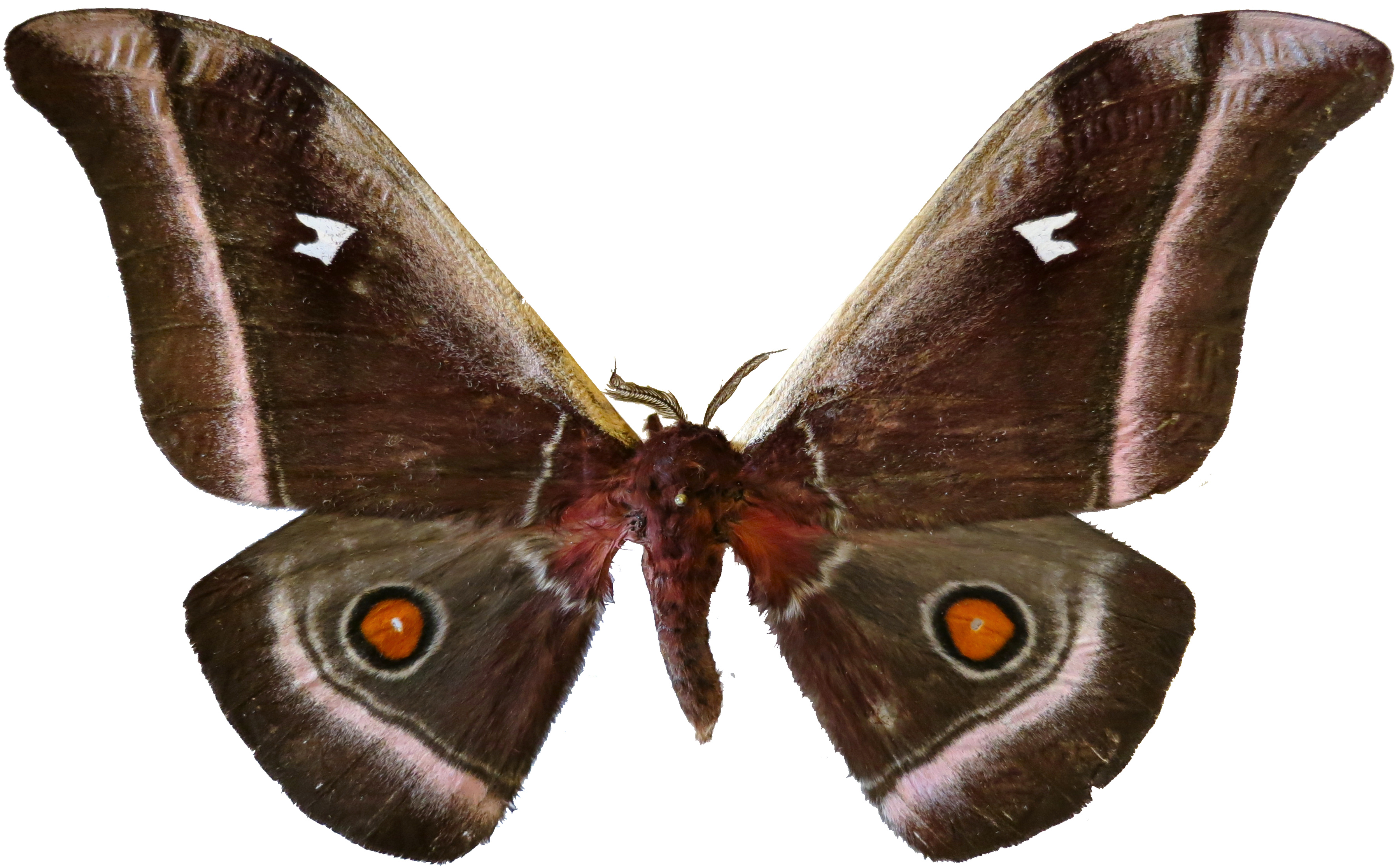 Bunaea alcinae from Mekak, Cameroon